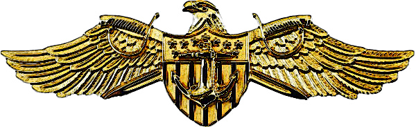 The United States Navy's Strategic Sealift Officer Warfare Insignia (SSOWI) badge.